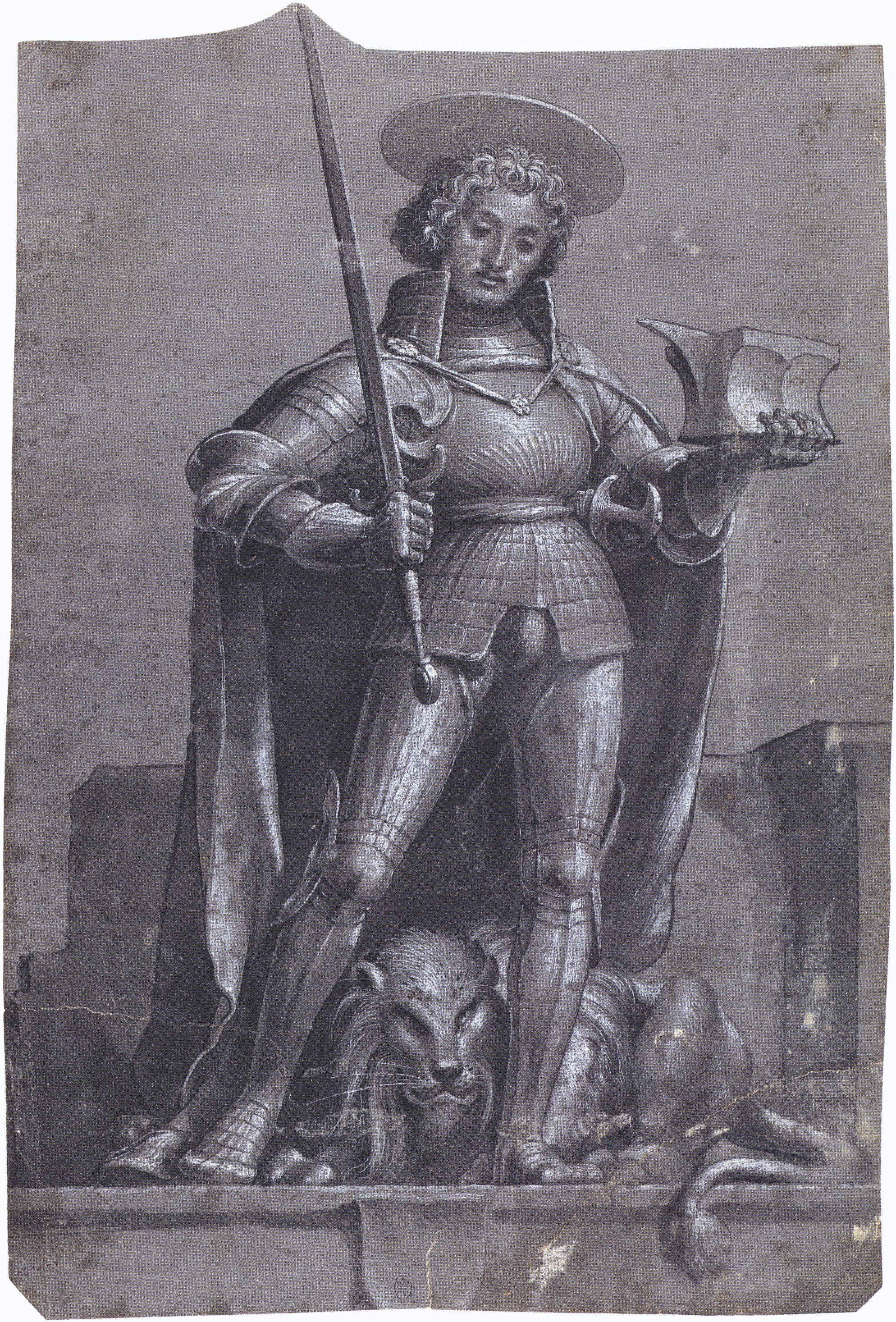 St Adrian, chiaroscuro drawing. Pen and ink and brush, grey wash, white heightening, on grey prepared paper, 27.2 (to tip of sword) × 18.5 cm, Louvre, Paris. This drawing depicts St Adrian of Nicodemia (or Nicomedia), a Roman officer martyred in A D 290 after his conversion to Christianity. The sword and anvil allude to the manner of his death: his hands were cut off and his legs broken on an anvil. The lion at his feet is the lion that by legend refused to attack him. Adrian's iconography made him the patron saint of smiths, so Holbein's client may have been a smith, perhaps the swordsmith for whom he designed a coat of arms, which he rendered in the same style (Müller, 218).